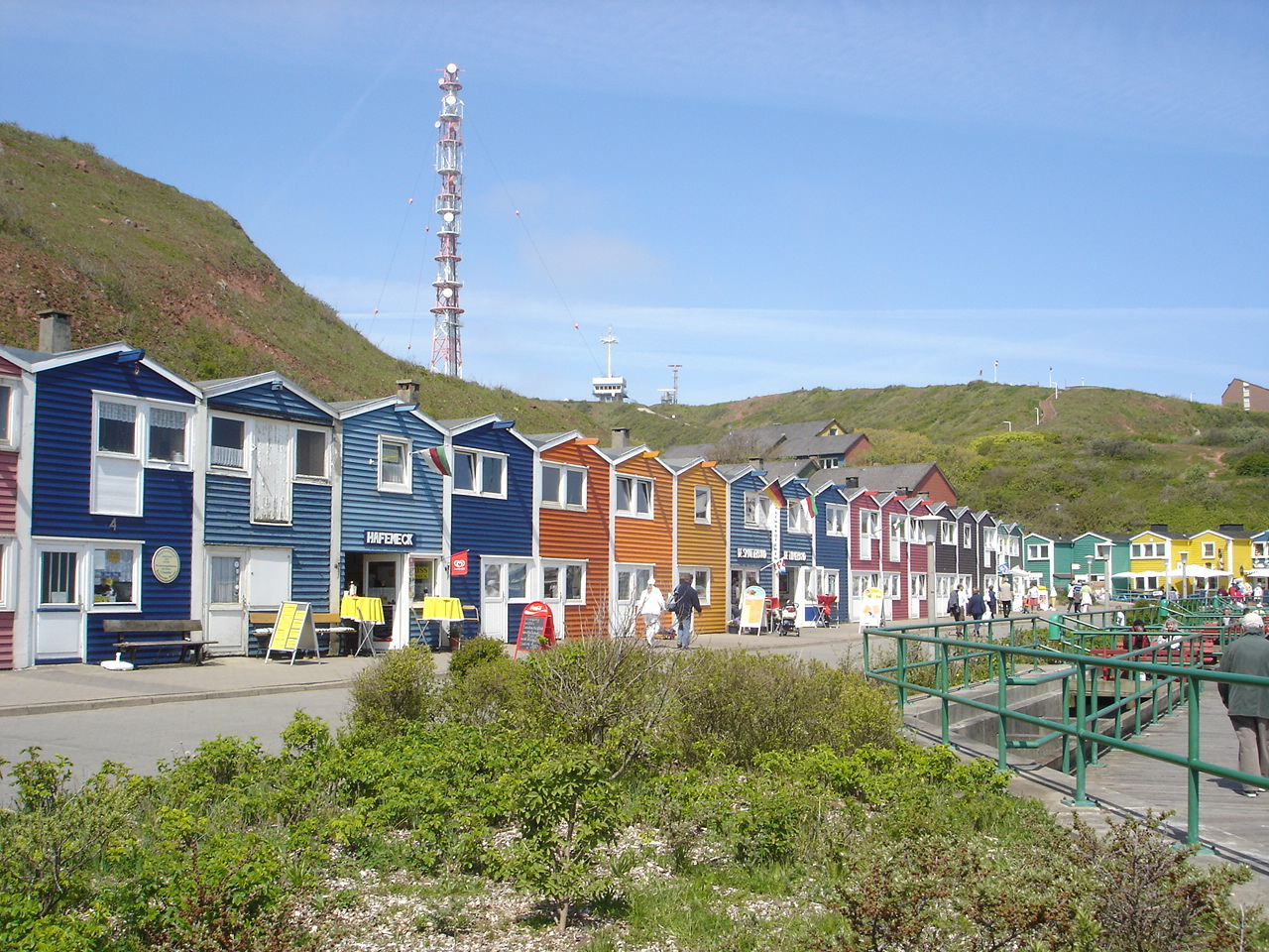 Hummerbude (in the old days lobster shacks) on Heligoland